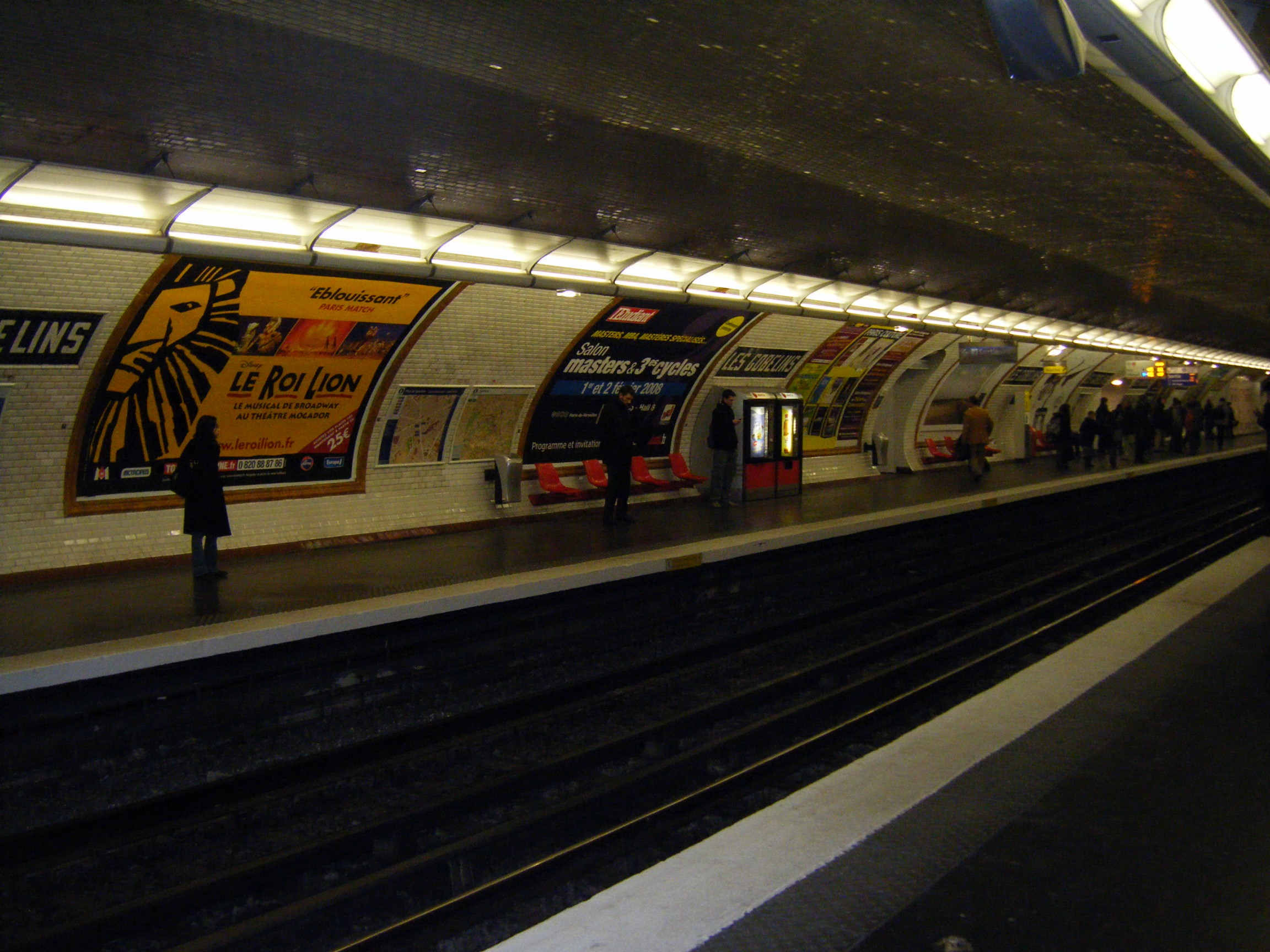 Les Gobelins metro station